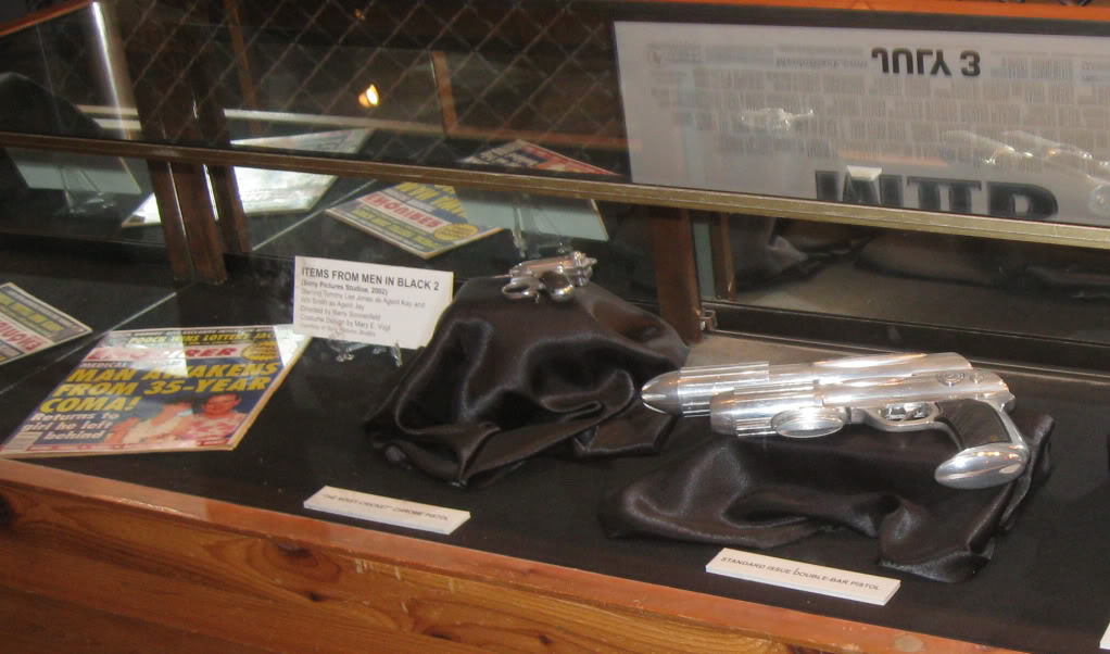 Item from the film Men in Black 2 incliding the Cricket, a magazine and sci-fictional gun.